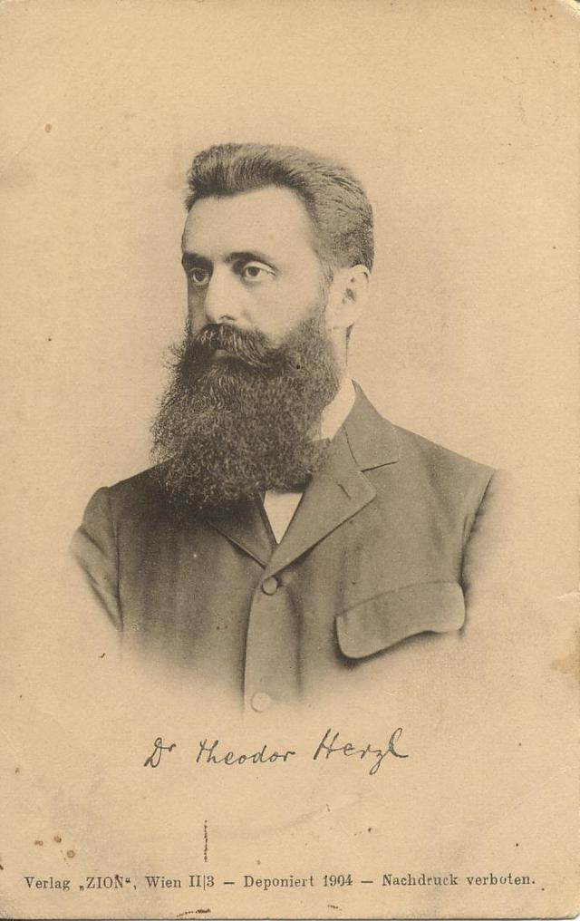 Theodor Herzl (1860-1904)